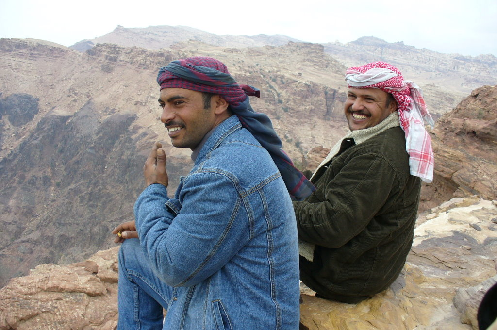 Local people from Petra, Jordan